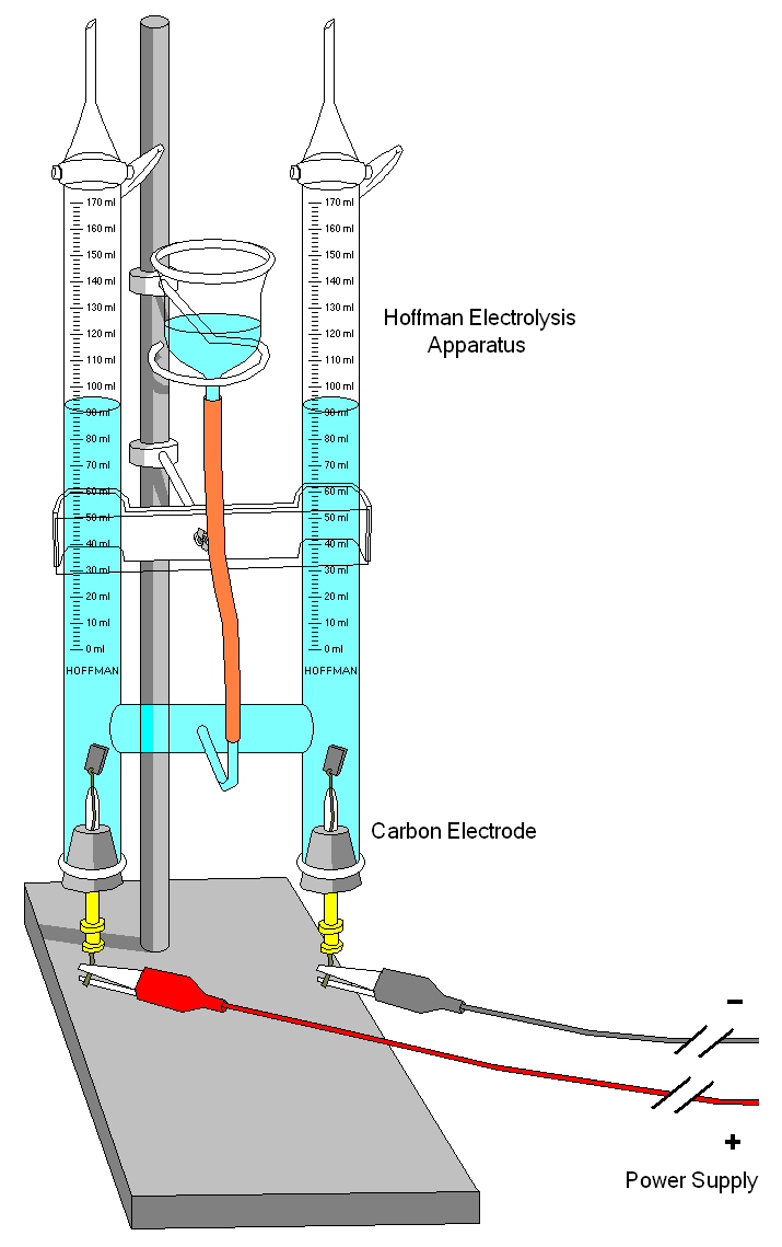 This is the illustration of electrolysis apparatus. Unfortunately, the 3D schematic of this illustration doesn't seem too realistic. Kreyòl ayisyen : Sa a se ilistrasyon nan aparèy elèktroliz. Malerezman, 3D yo schematic ilistrasyon sa yo pa sanble twò reyalis.